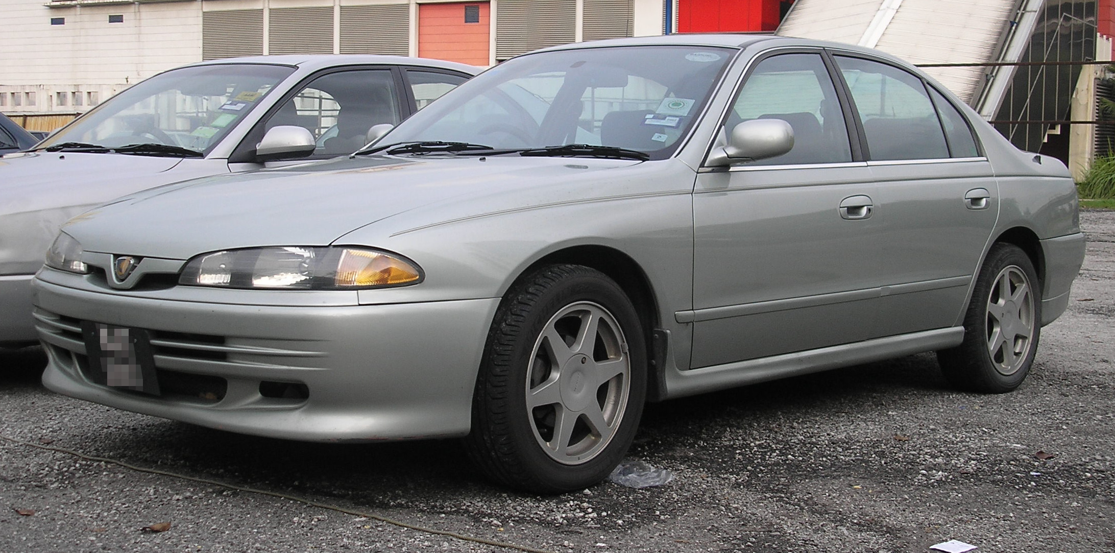 The front of a Proton Perdana V6 in Bangsar, Kuala Lumpur, Malaysia. (Originally uploaded on 02:50, 3 April 2007 as "Proton Perdana, Kuala Lumpur.jpg".)